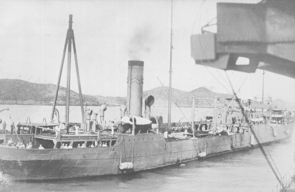 IJN oiler ERIMO.